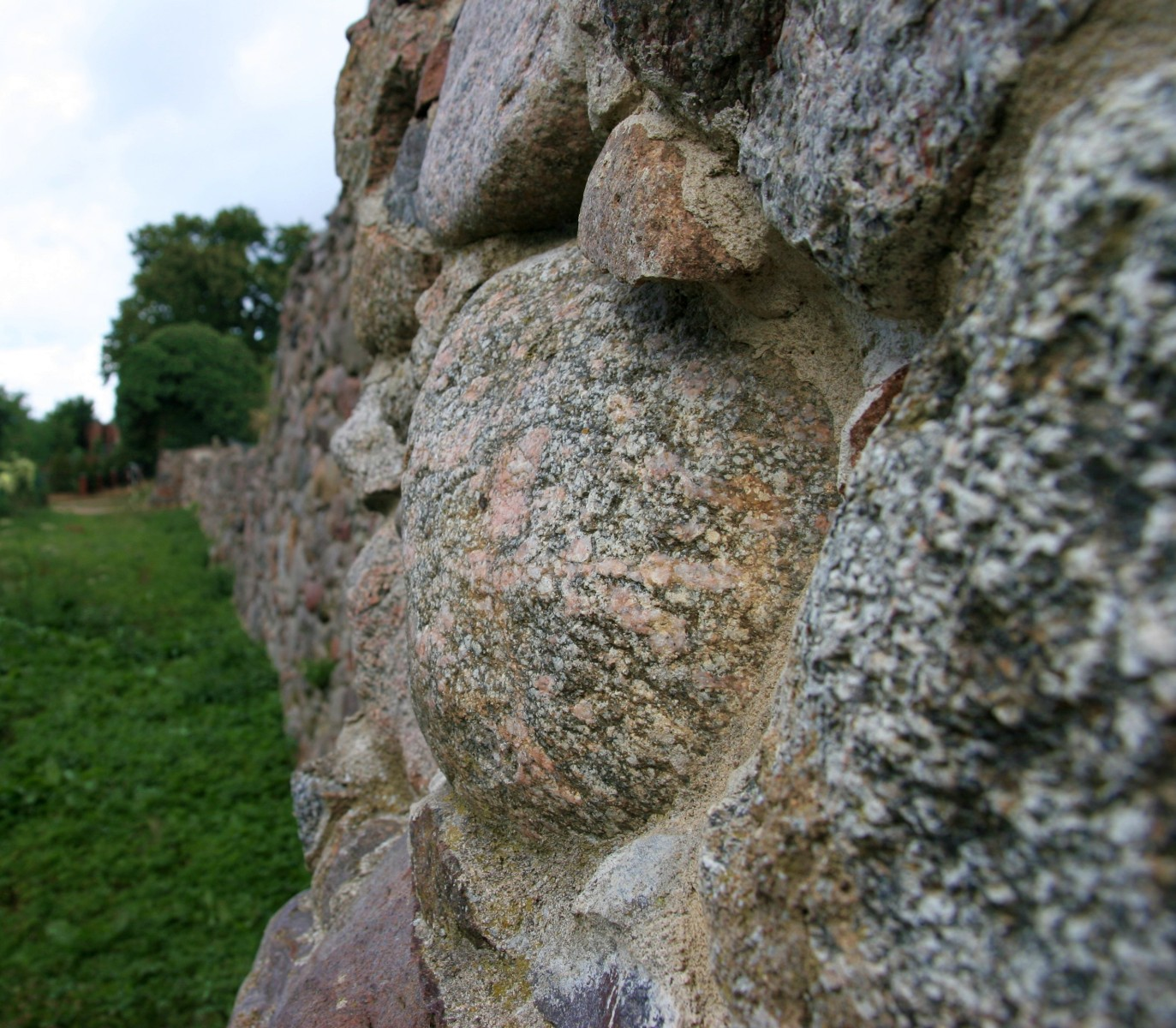 Maszewo Walls